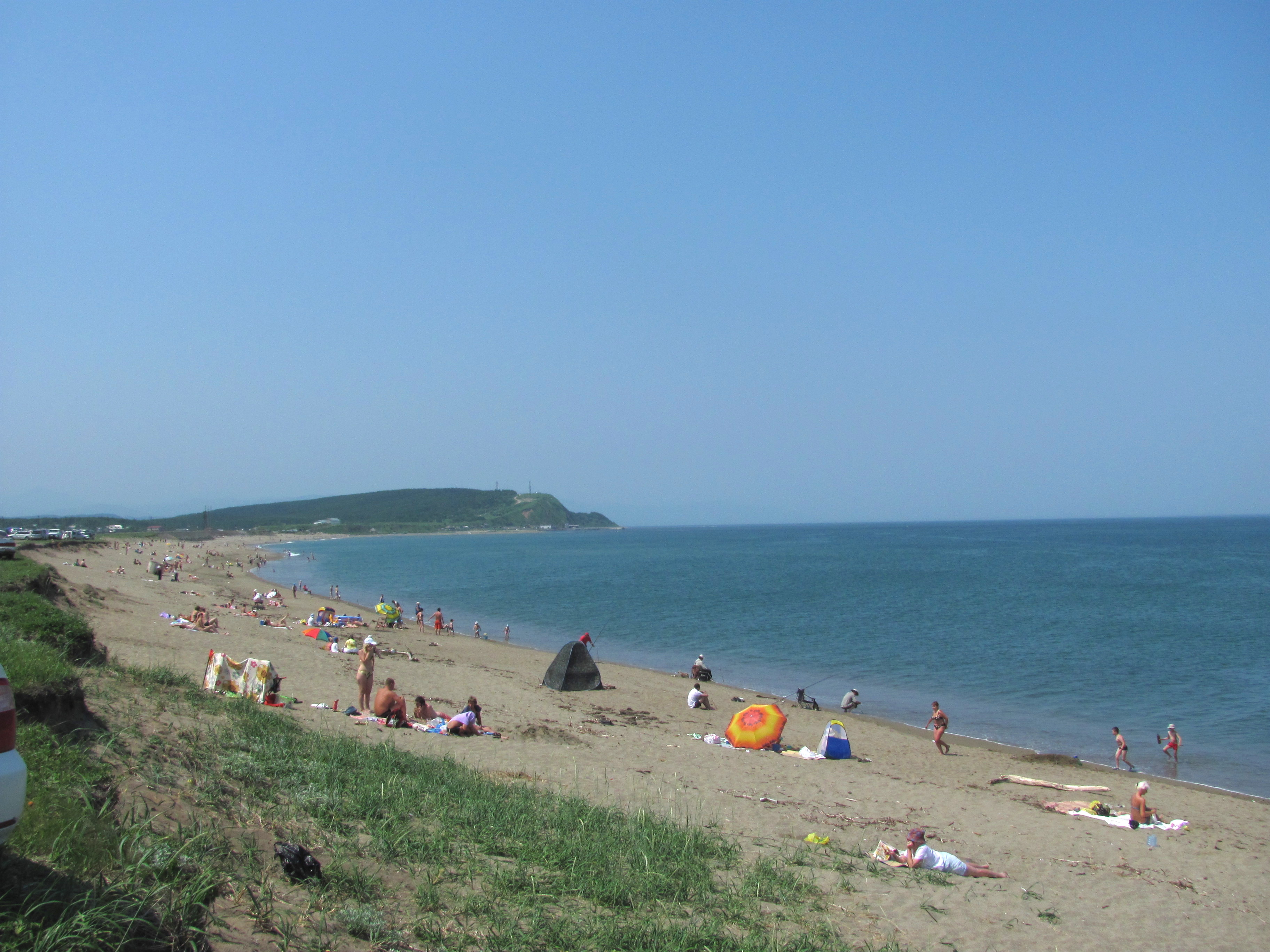 "Popular beach near Okhotskoye. Sakhalin coast of Sea of Okhotsk.